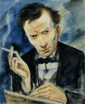 Self portrait